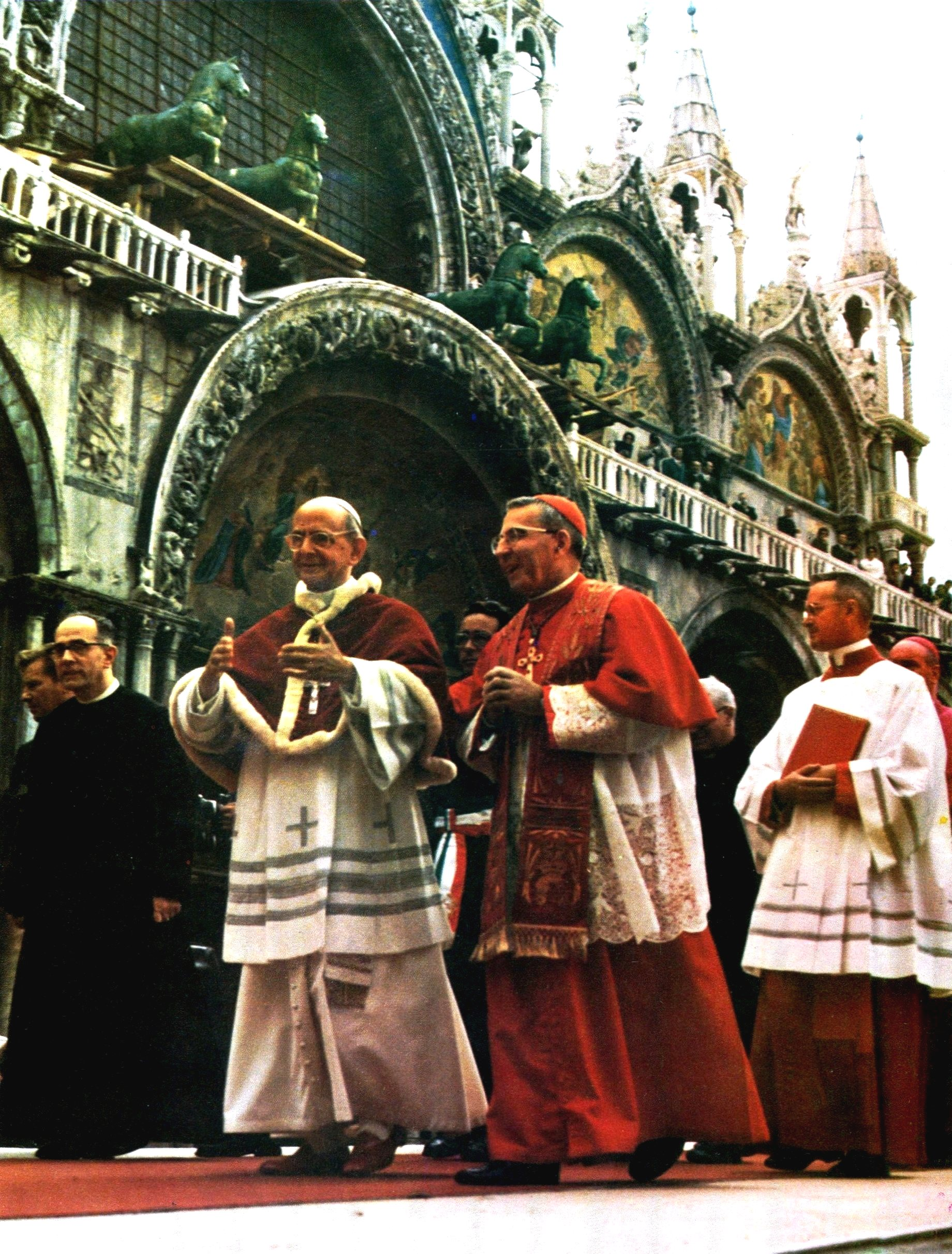 Visit of Pope Paul VI in Venice in 1972 with the Cardinal Patriarch Albino Luciani